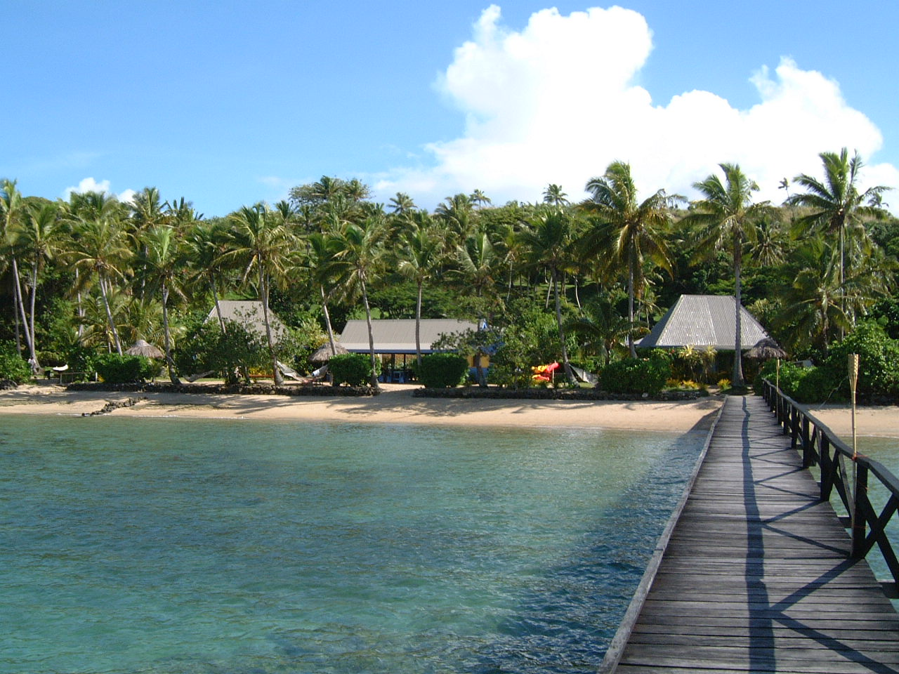 McDonalds Hotel in Nananu-i-Ra, Fiji